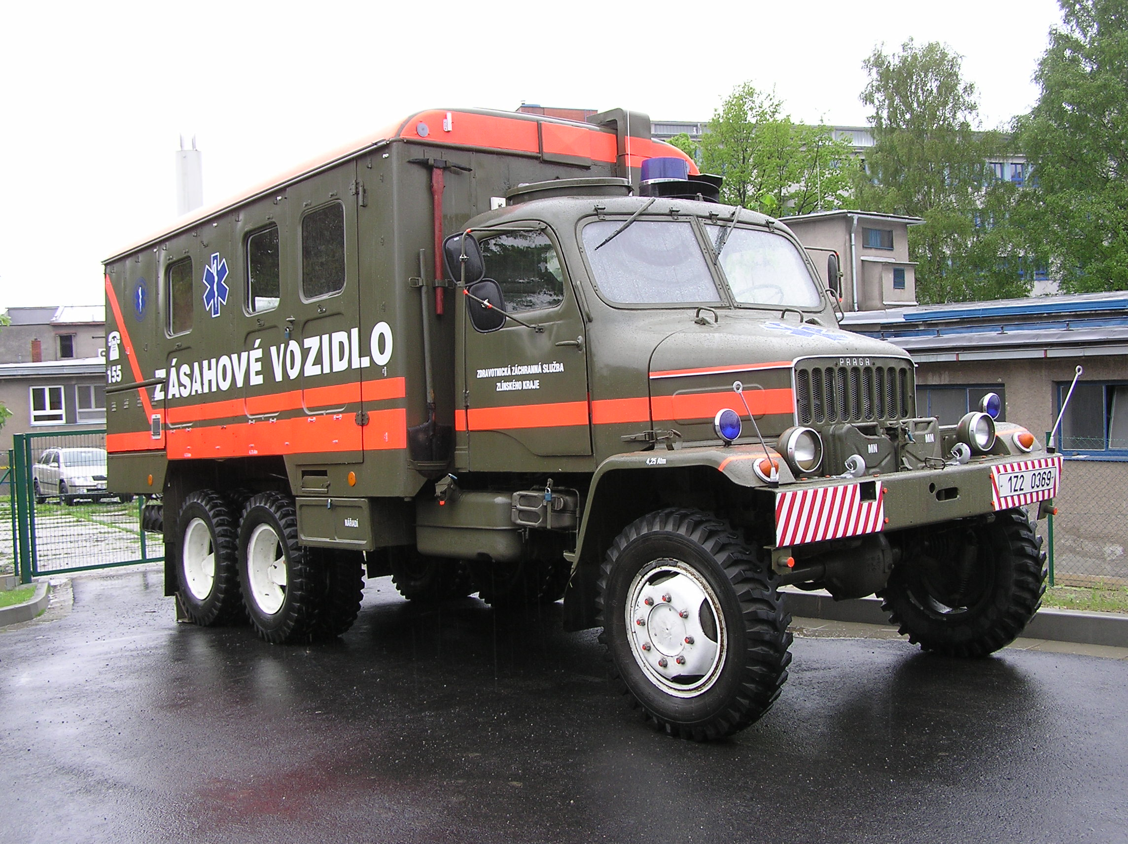 Praga V3S ambulance vehicle of the Emergency Medical Service of Zlín Region, Valašské Meziříčí, Vsetín District, Zlín Region, Czech Republic